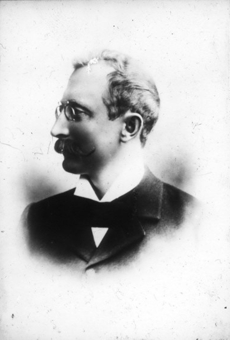 Norwegian railway engineer Finn Sejersted (1868–1914), photo from around 1898.